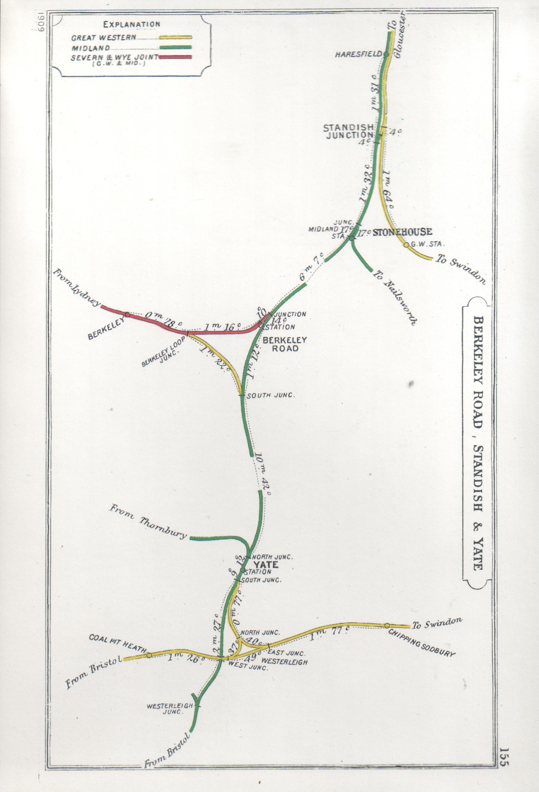 Pre Grouping railway junction around Berkeley Road, Standish & Yate